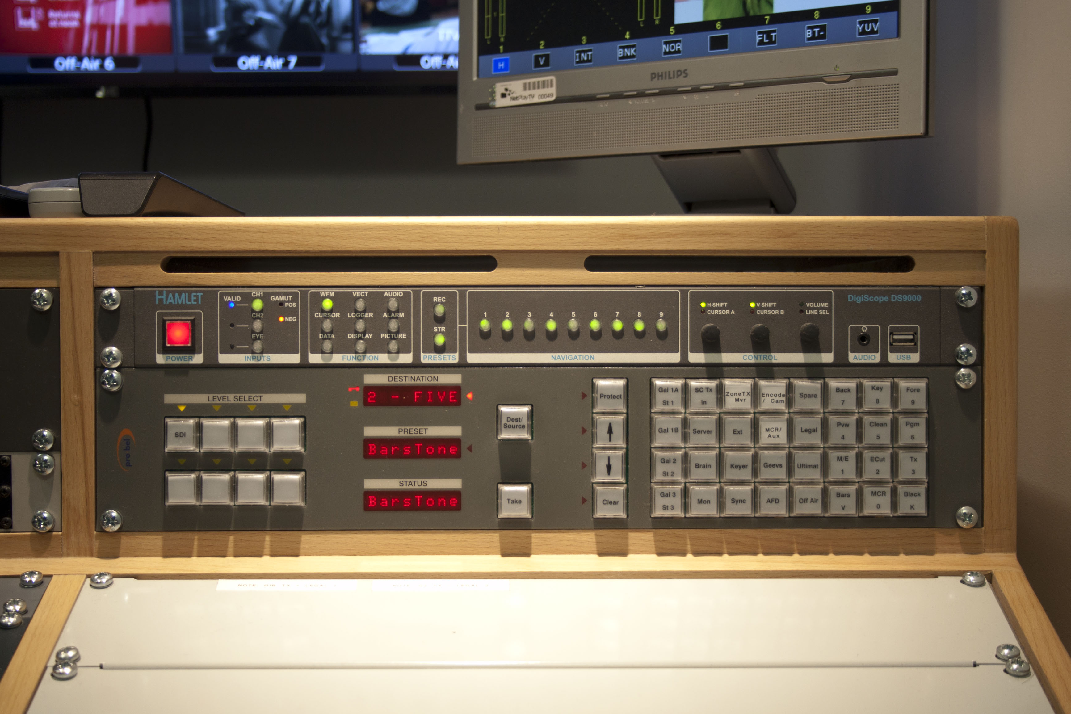 A Probel (Now Snell) remote control panel for a "Sirus" video matrix